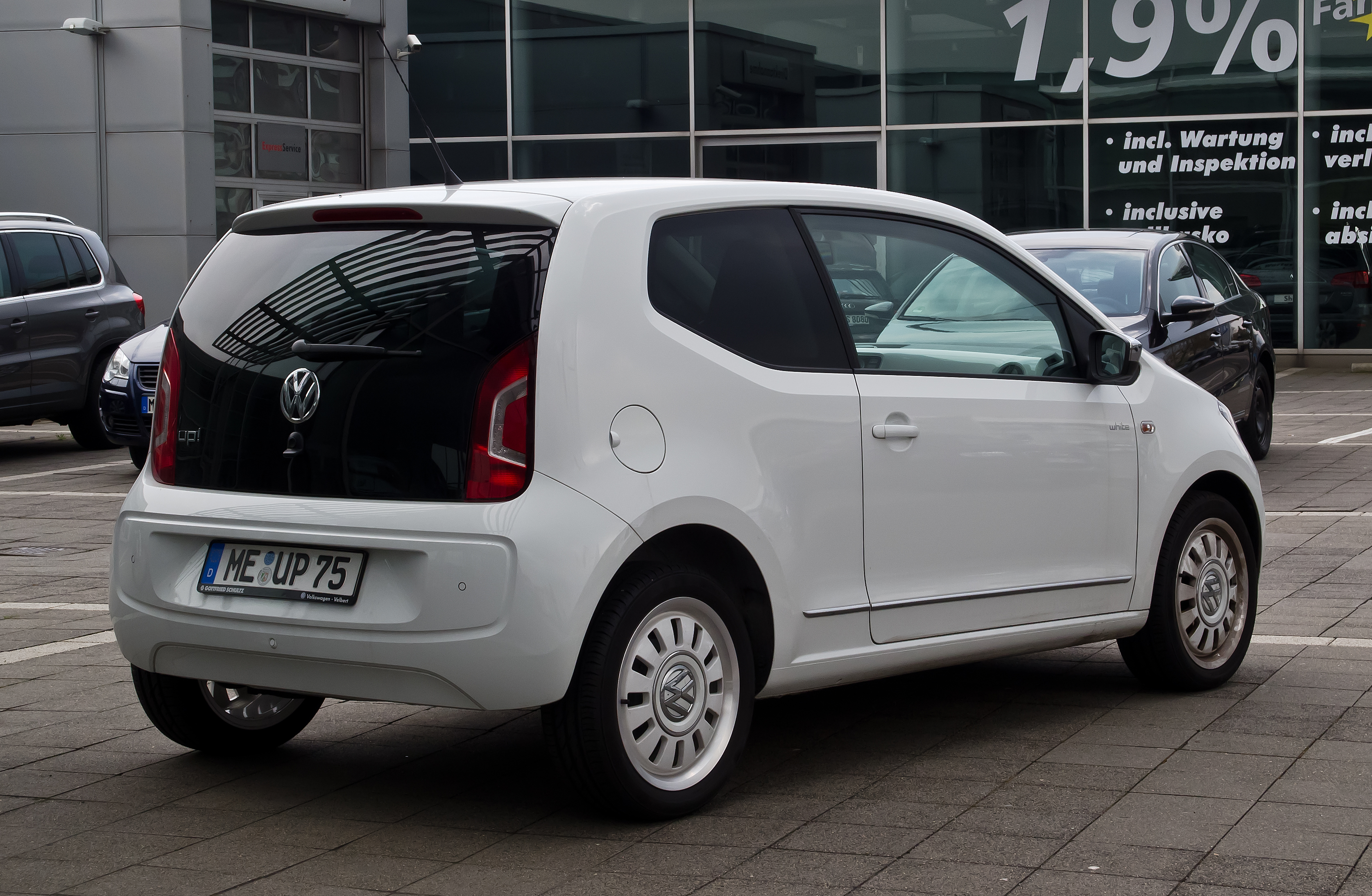 VW white up! 1.0